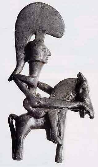 The so-called Warrior of Moixent. Iberian bronze figurine dated circa 400 BC. Also called Horse of La Bastida. Found in Partida de la Bastida de les Alcuses, in Moixent (Province of Valencia, Spain).